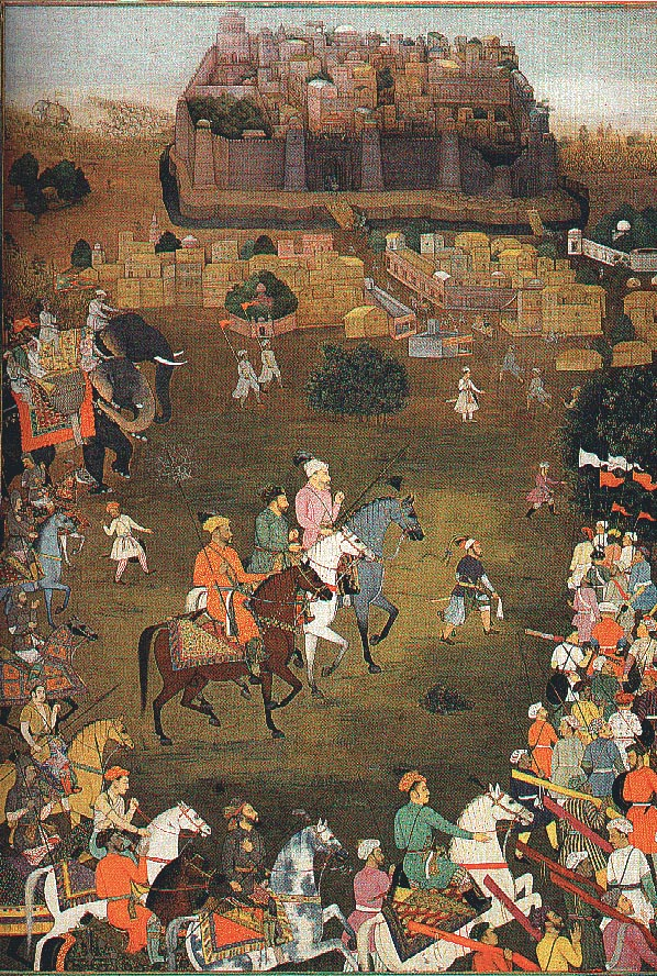 Illustrations from the 1636 Padshahnama of Shah Jahan showing Moghul Soldier & Civilian Costume. Illustrations to the text of Abdul Hamid Lahori